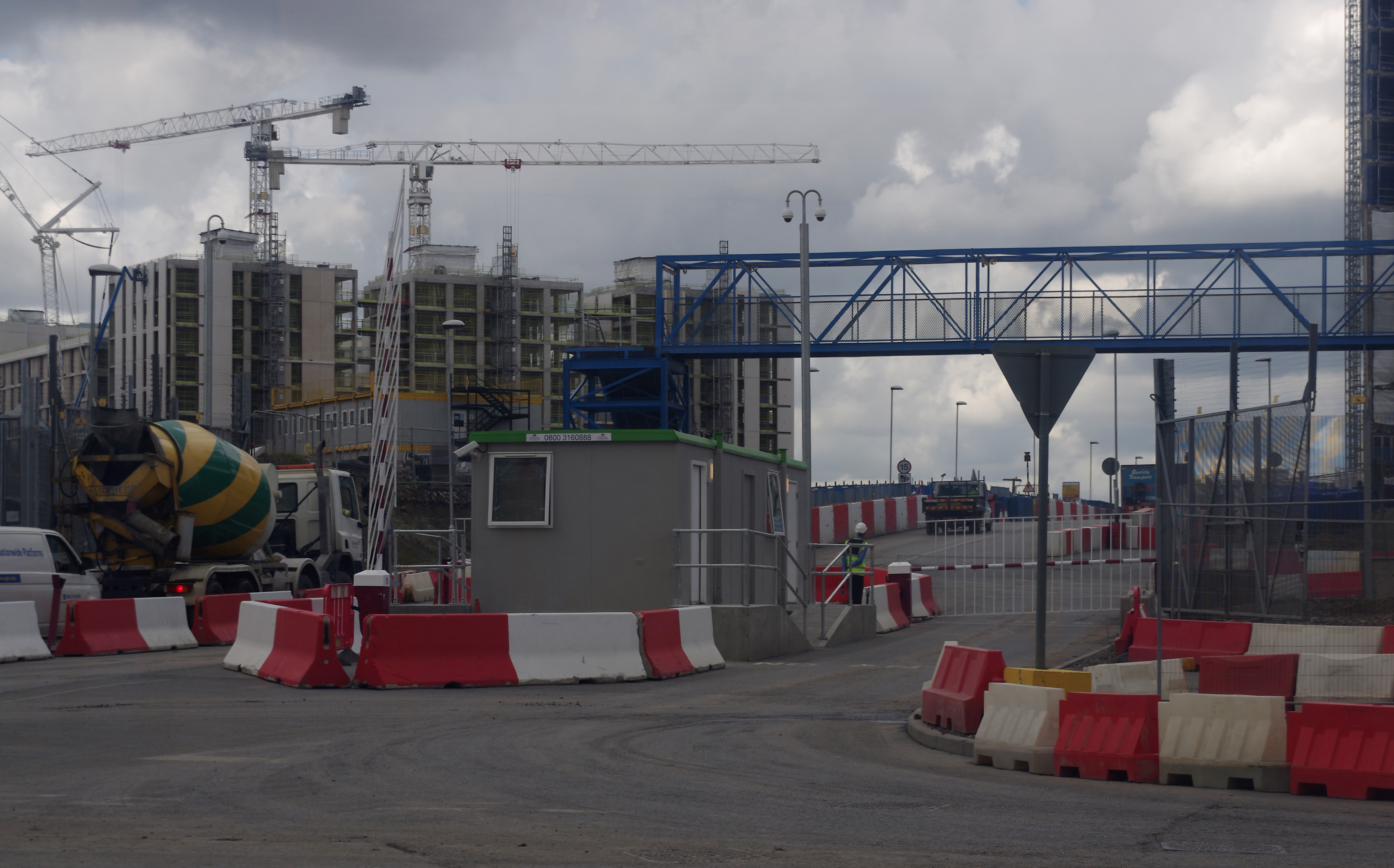 Construction work on the London 2012 Olympic Village outside Stratford International railway station.